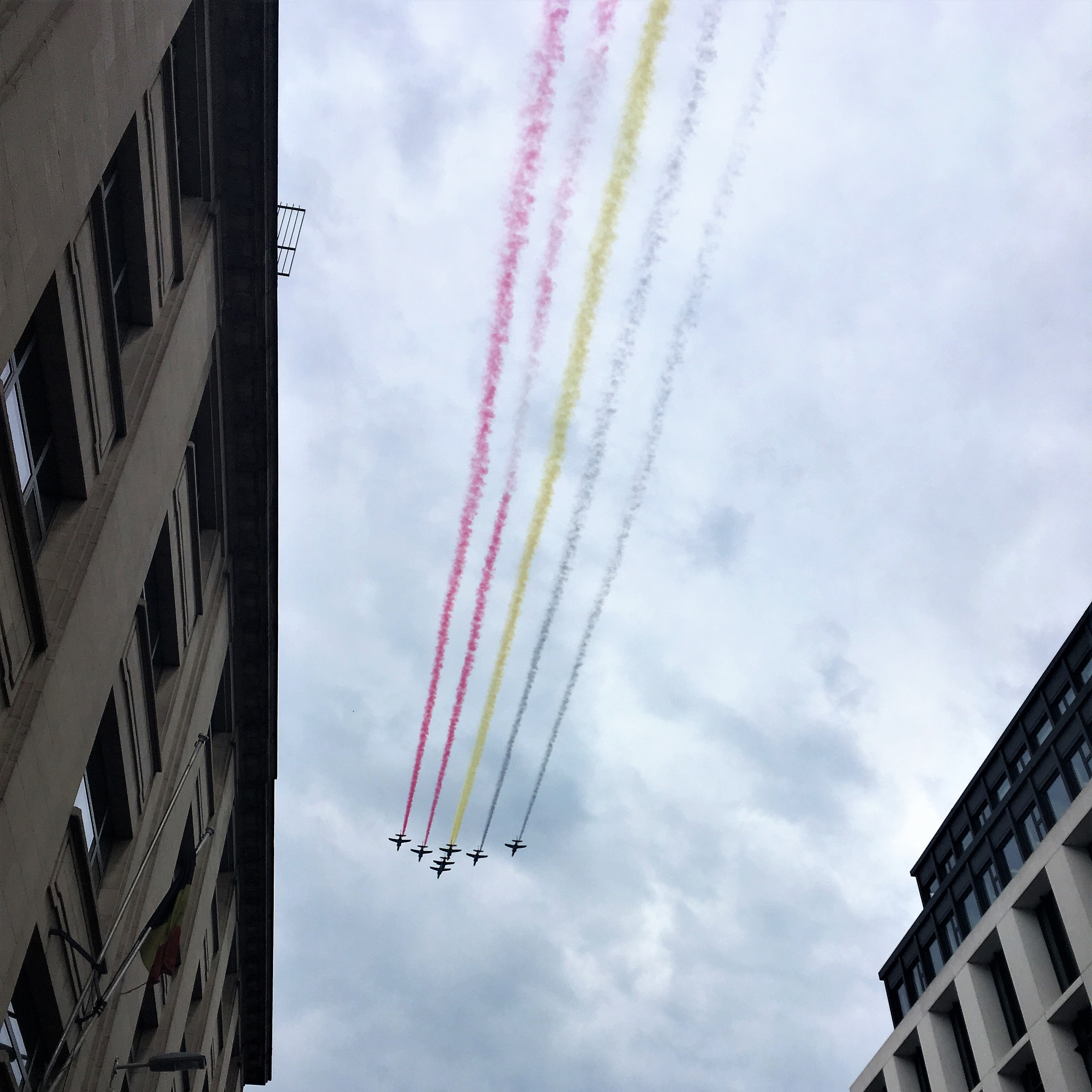 Fighter jets make the Belgian tricolour (black, yellow and red) in the air during the National Parade on July 21, 2018